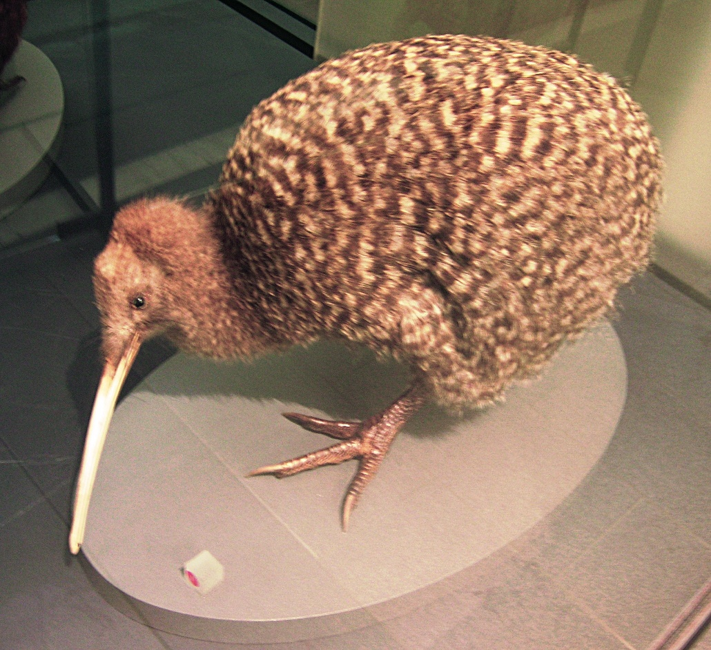 Great spotted kiwi, apteryx haastii, Auckland War Memorial Museum